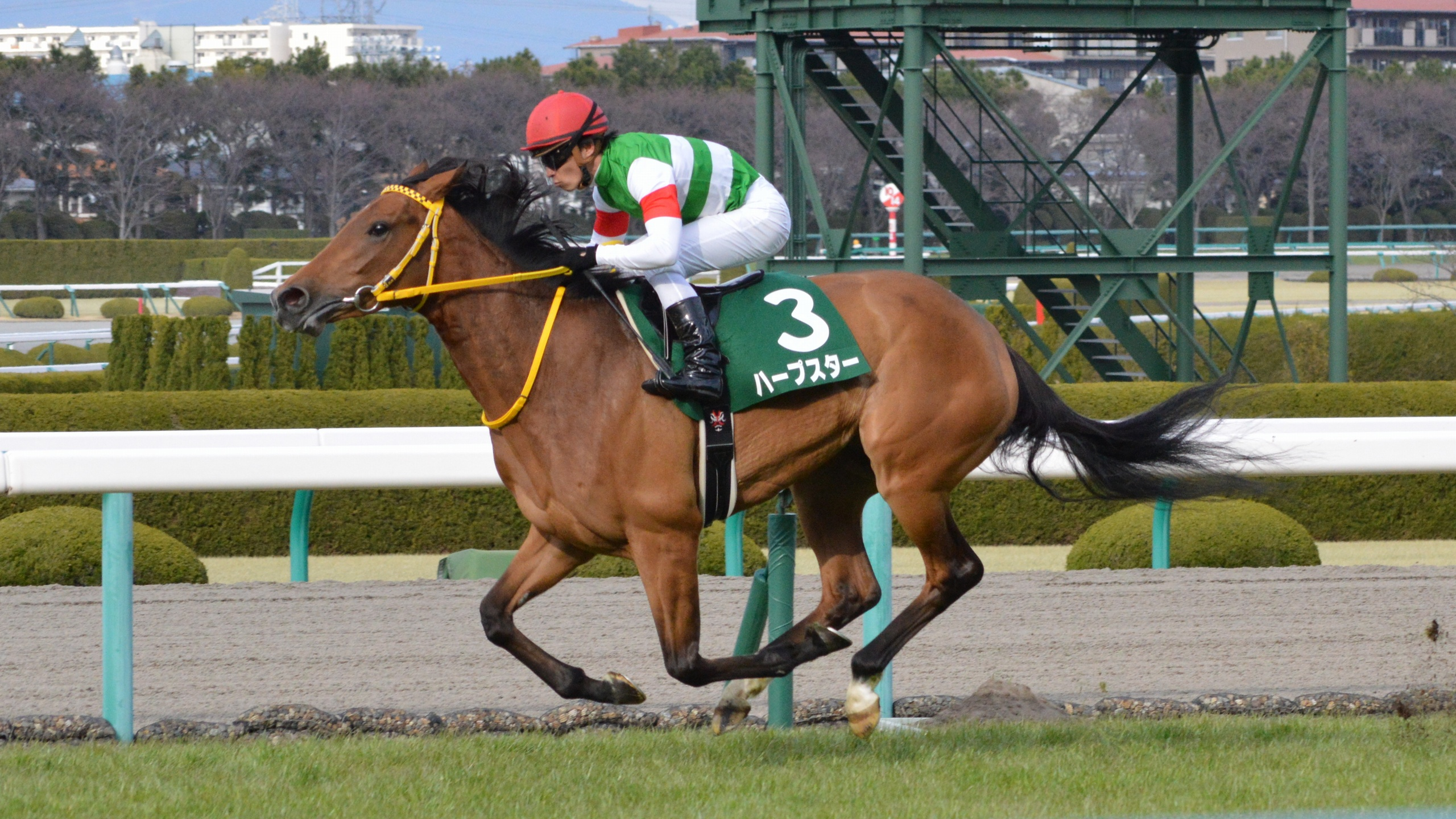 Japanese race horse Harp Star at Hanshin racecourse. Hanshin (JPN) 08 march 2014Tulip Sho (Grade 3) (Turf) RankHorse NameOddsAgeWgtTrainerJockey1stHarp Star (JPN)1/10FF38-7Hiroyoshi MatsudaYuga Kawada2ndNuovo Record (JPN)171/10F38-7Makoto SaitoYasunari IwataOthers are omitted. (13 horses entered in a race.)